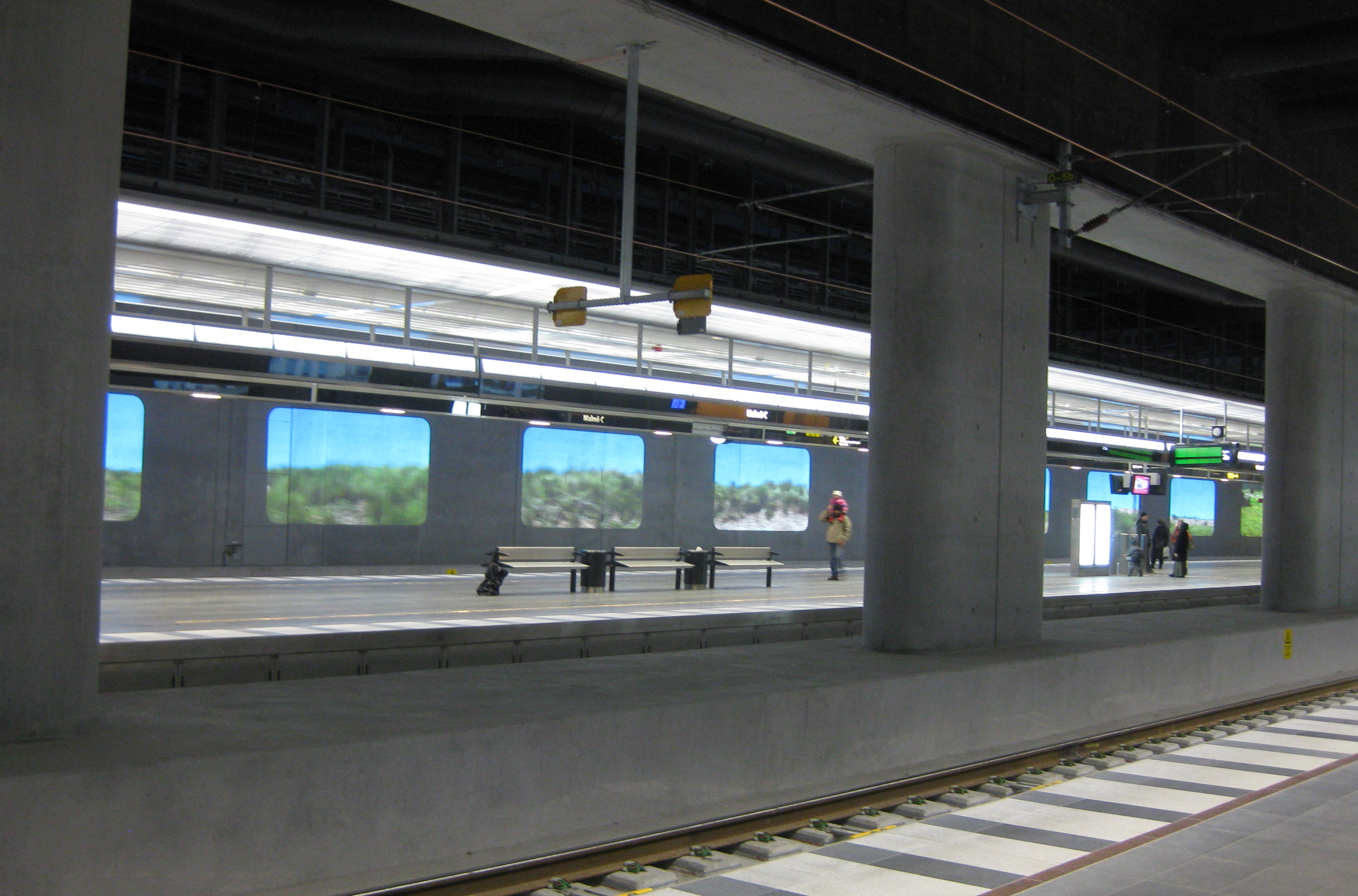 Malmö Central station, Platforms for the City tunnel